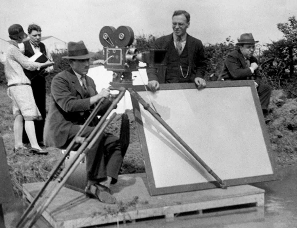 Jack E. Cox (left) and Alfred Hitchcock (right) on set photograph from The Ring (1927)